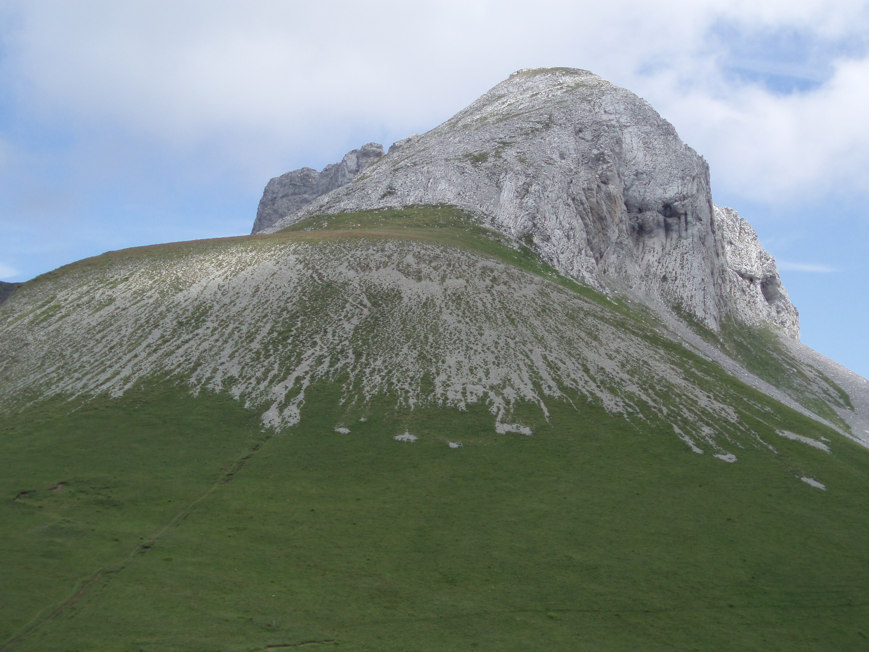 Pointe d'Areu summit, seen from the west, picture taken at the Pointe du Château